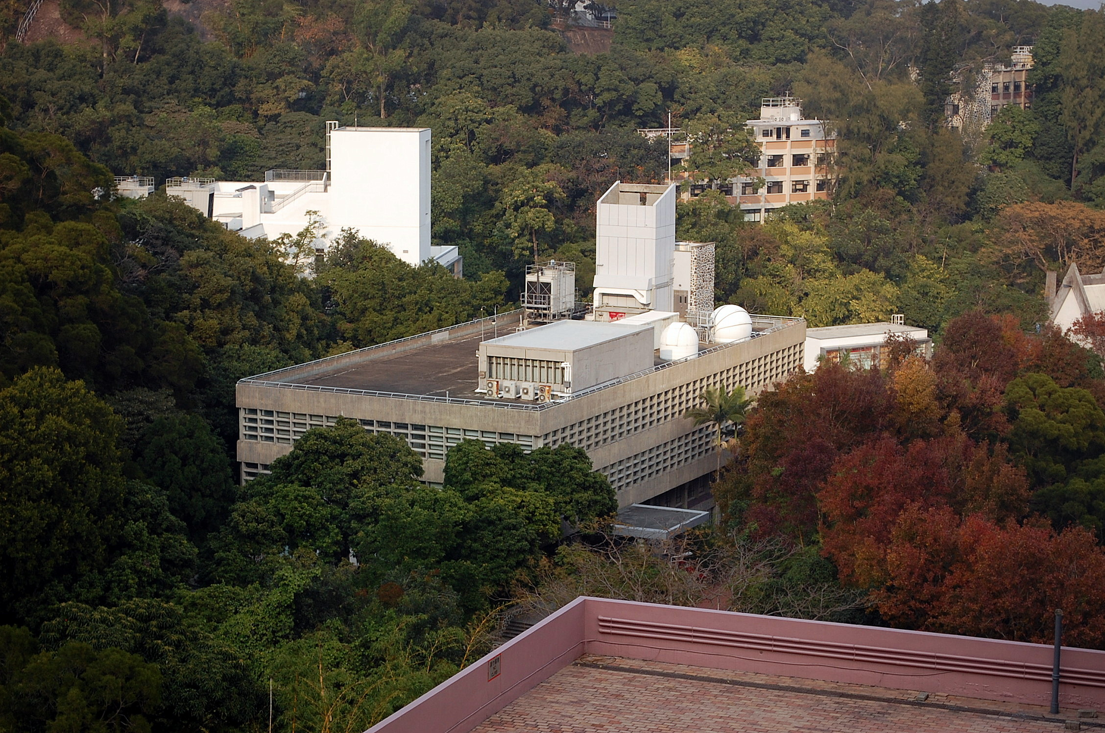 The Elisabeth Luce Moore Library at Chung Chi College, Chinese University of Hong Kong, viewed from the Wong Foo Yuan building.中文（香港）: 牟路思怡圖書館